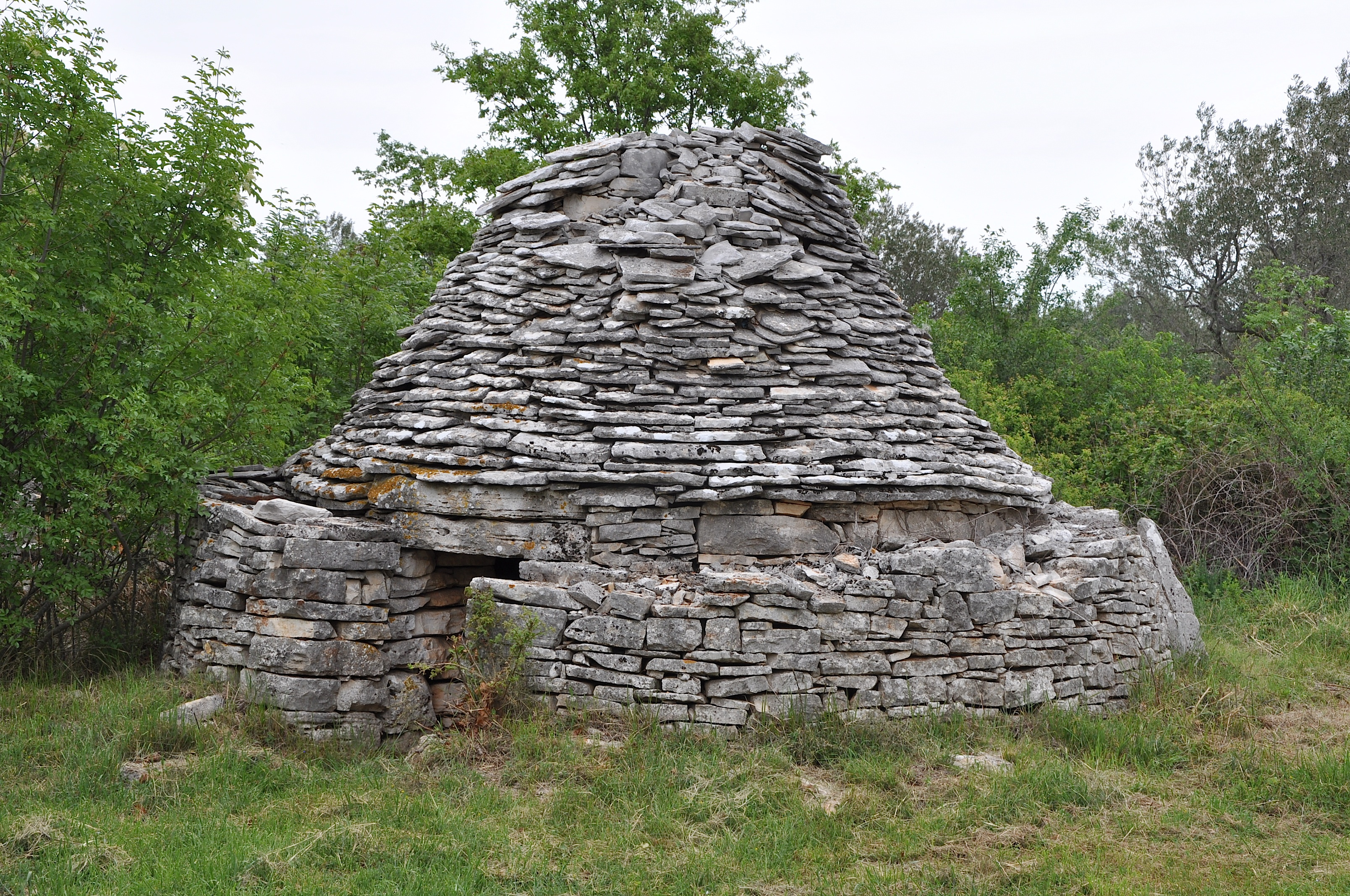 Kažun, stone-made cottage in Istria, Croatia